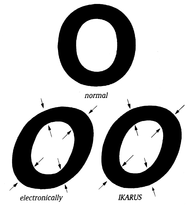 Automatic typeface correction after italicization